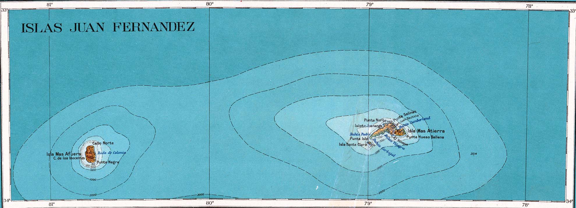 Map of Juan Fernández Islands in the Pacific Ocean